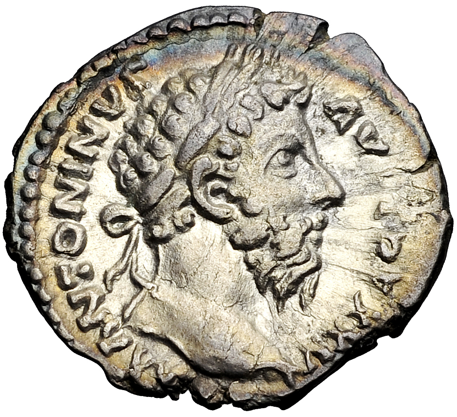 Denarius featuring emperor Marcus Aurelius From Rasiel's Roman Coin Collection In the eastern part of the empire the silver coin of daily use was the drachma. It is identical to the denarius only inscribed in Greek. Here is an example of a silver drachma of Marcus Aurelius the reverse depicts minerva.